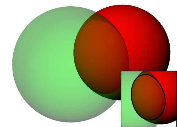 Intersection between two spheres: a circle.